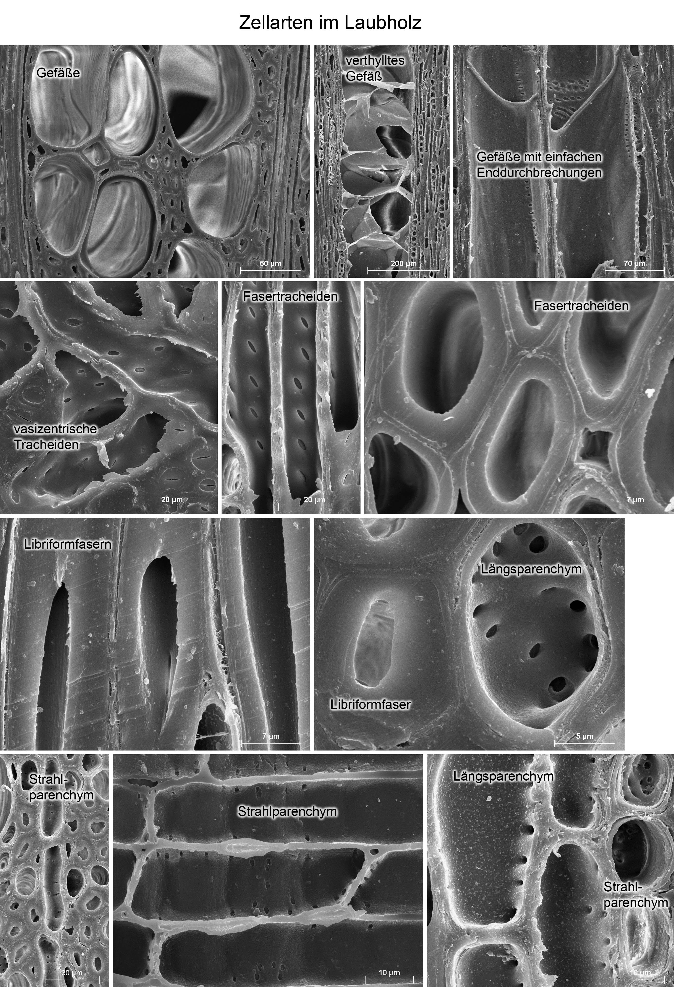 Cell types in hardwood